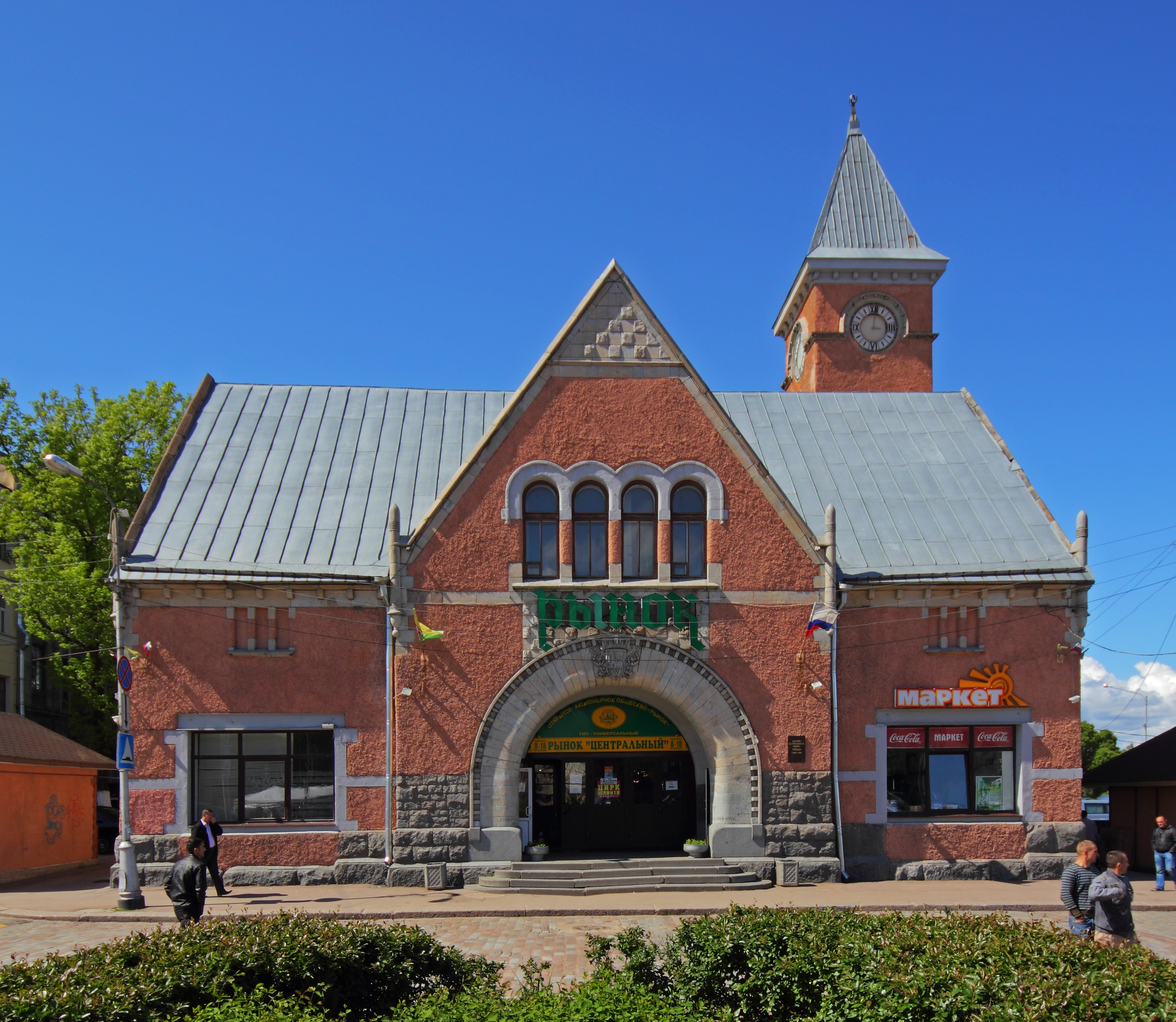 Vyborg (Viipuri), Leningrad Oblast, Russia. Market building.